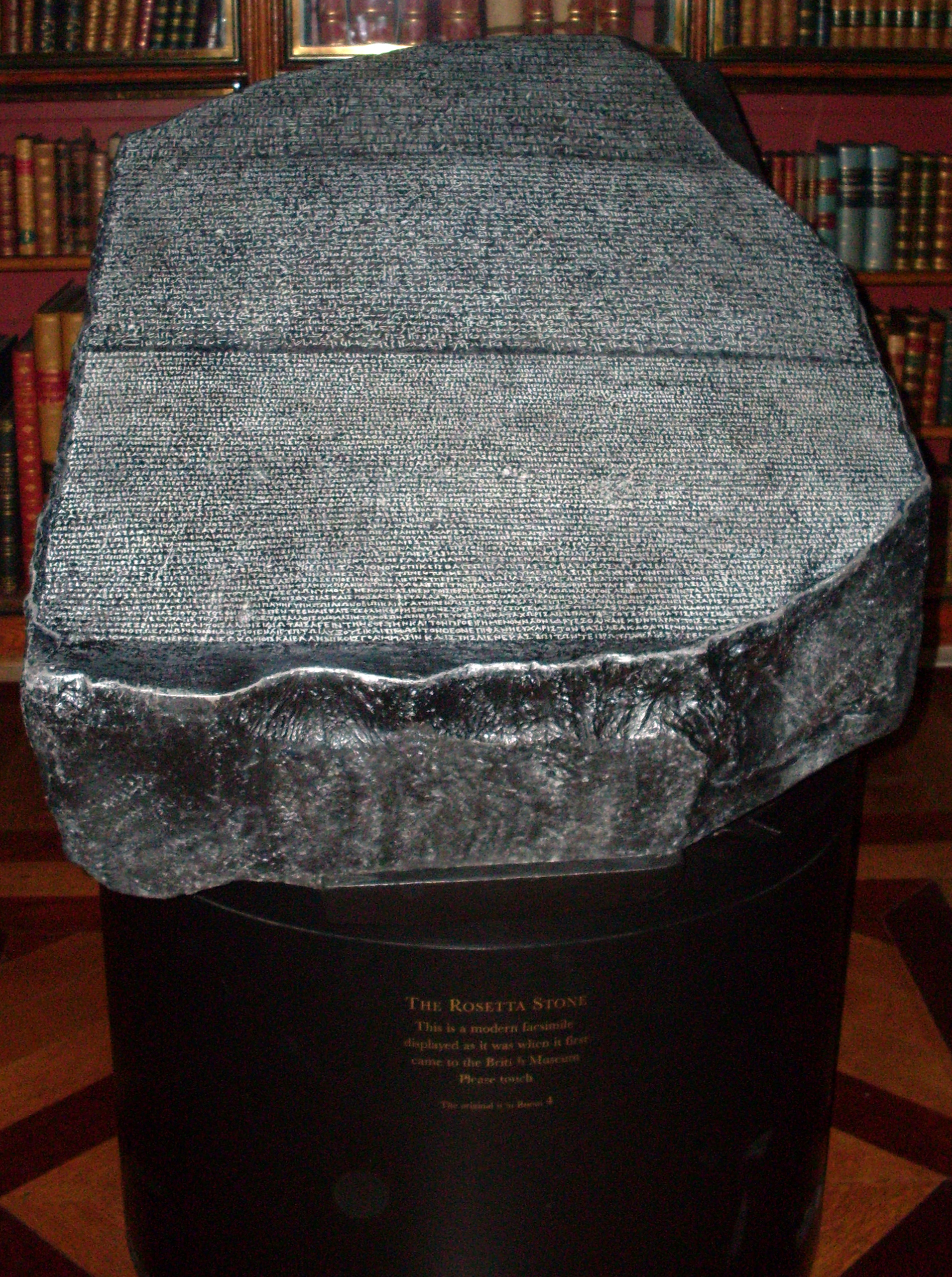 Photo of the copy of Rosetta Stone in British Museum. Photo by kacperg333